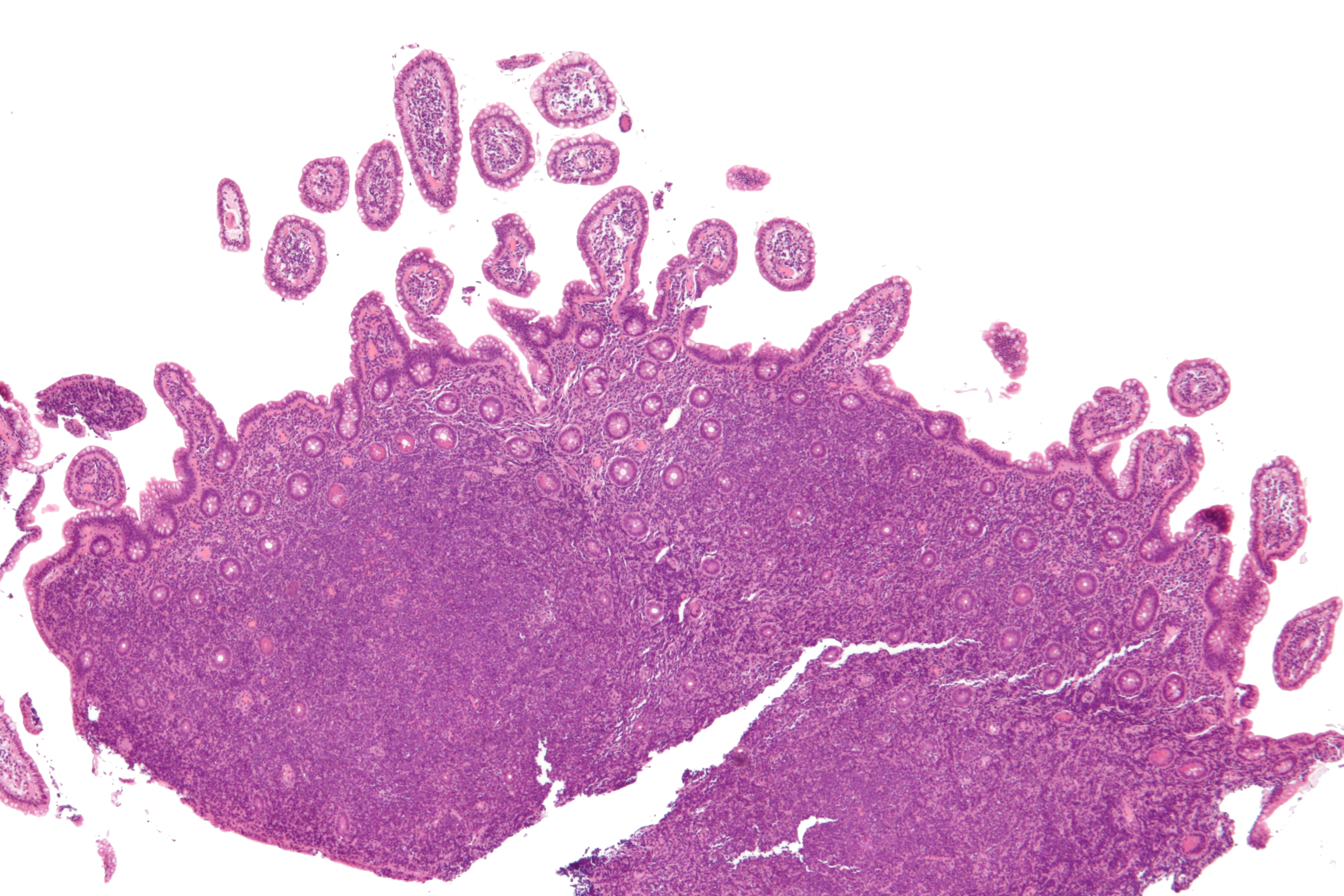 Low magnification micrograph of mantle cell lymphoma of the terminal ileum. Endoscopic biopsy. H&E stain. Histomorphologic features: Monomorphic small lymphoid cells less than twice the size of a resting lymphocyte. Abundant mitoses. Sclerosed blood vessels. Scattered epithelioid histiocytes. Immunohistochemical staining: Positive: Cyclin D1, CD5, CD43, CD20, CD45. Negative: CD23. Molecular features: t(11;14)(q13;q32). CCND1/IGHG1 fusion gene.[1] Related images Low mag. Intermed. mag. Low mag. - cyclin D1. Intermed. mag. - cyclin D1. References ↑ URL: Accessed on: 18 August 2010.